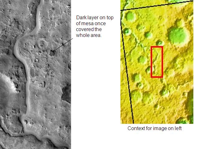 Auquakuh Valles in Syrtis Major. Location is 28.2 degrees north latitude and 299.2 degrees west longitude. Picture taken with Mars Odyssey's THEMIS. Photo credit NASA/JPL/ASU.